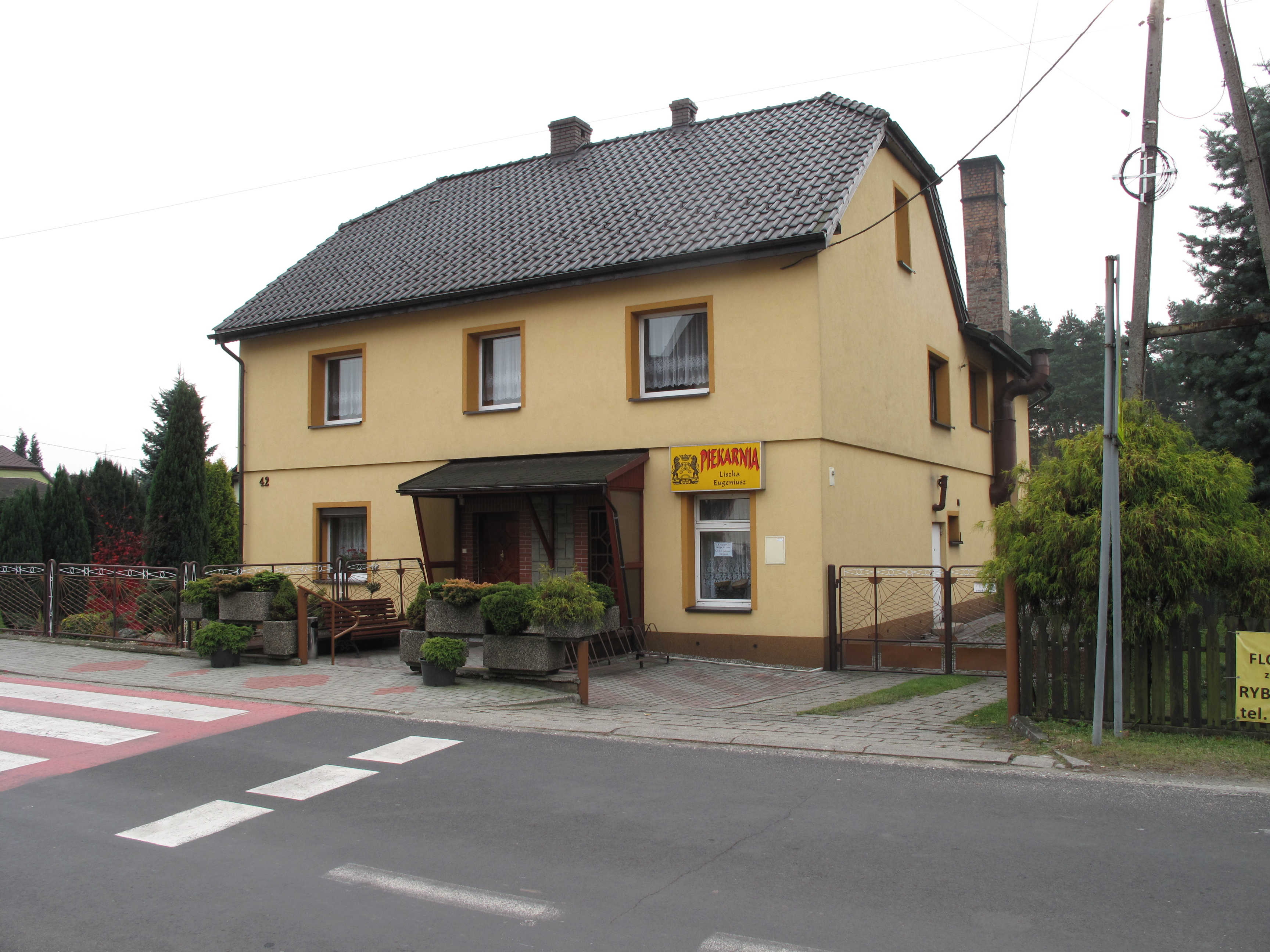 Górki Śląskie. Racibórz County, Poland.